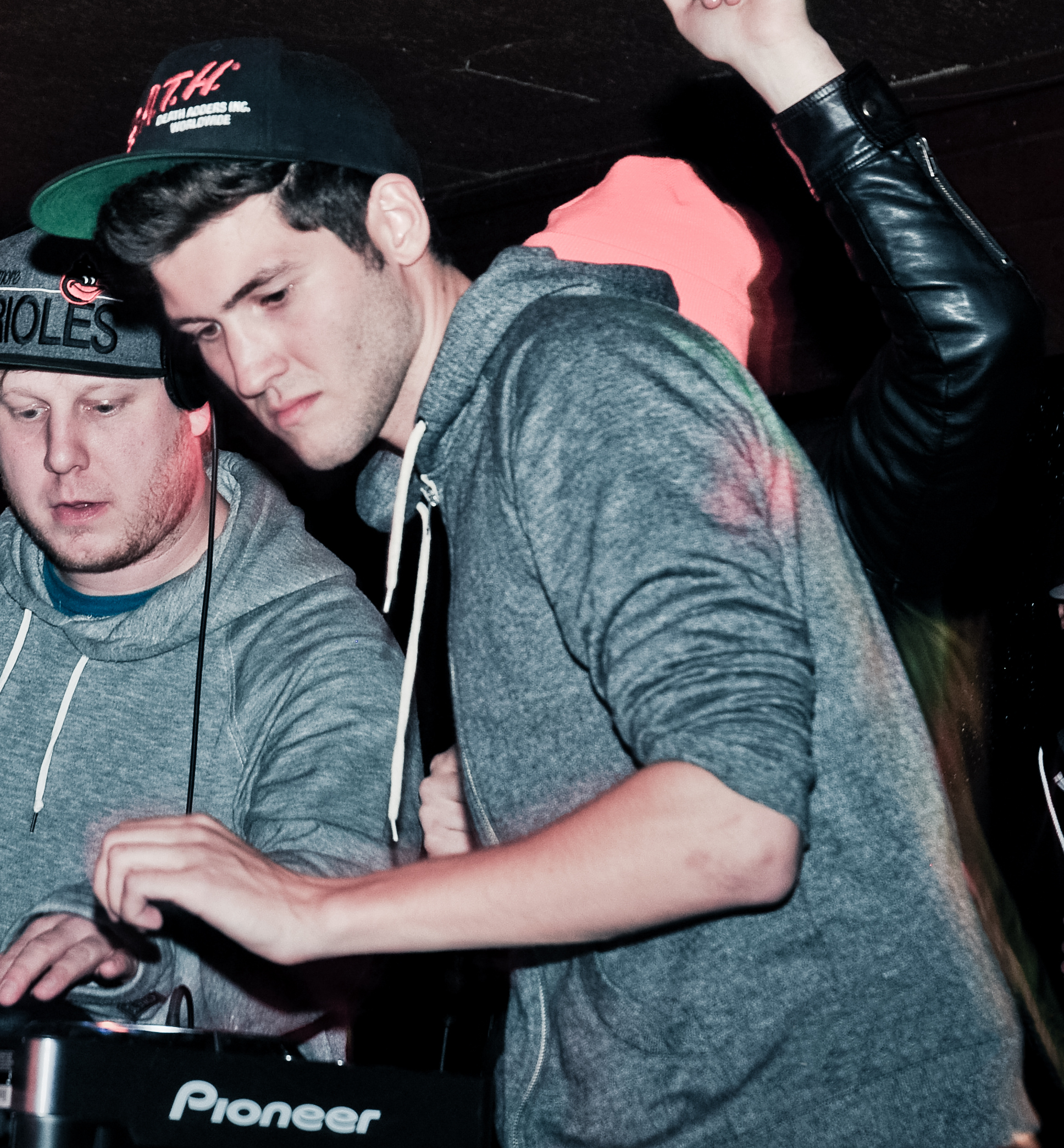 Baauer performs at an event presented by Big Dancing on September 13, 2012.